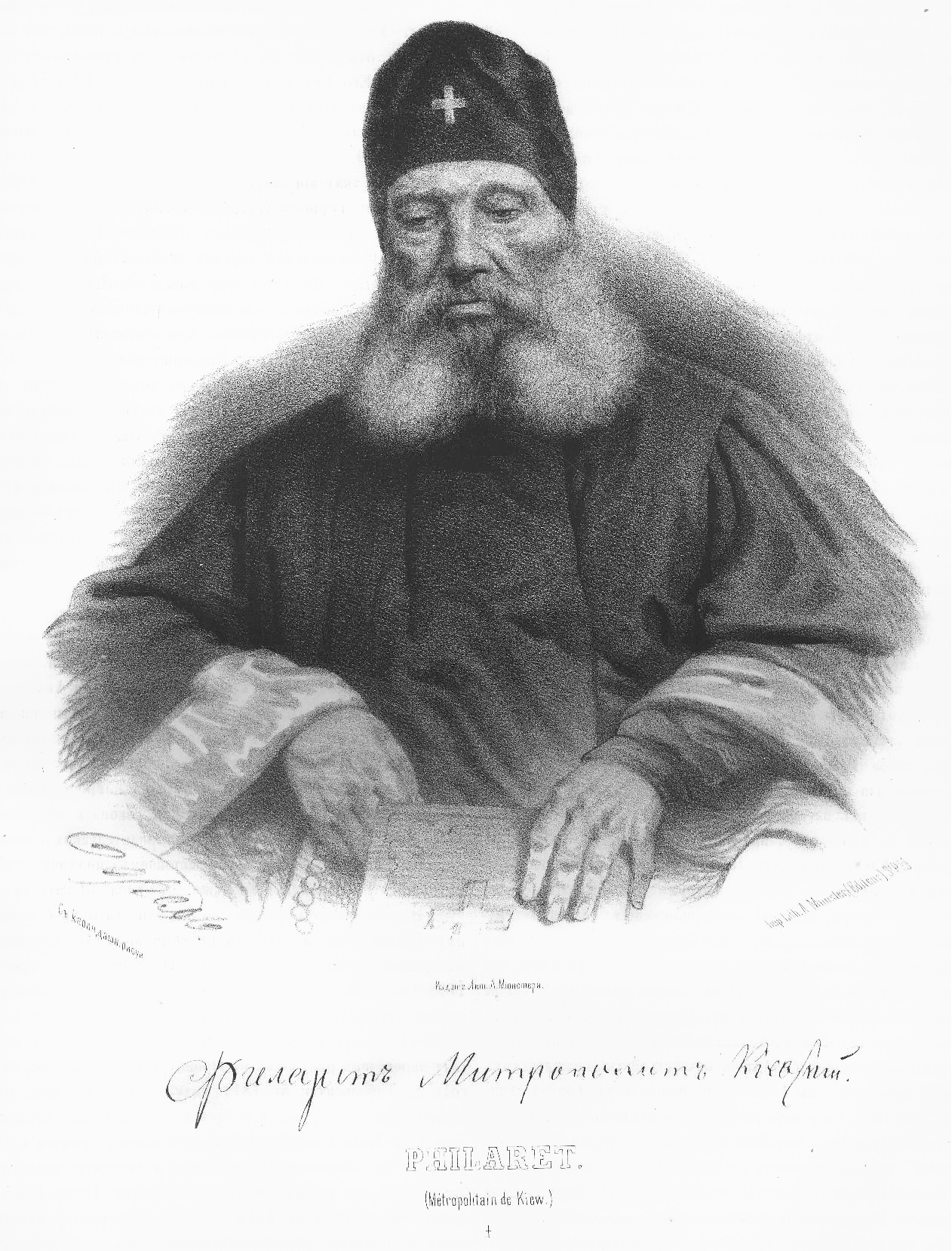 Filaret (Amphitheatrov)